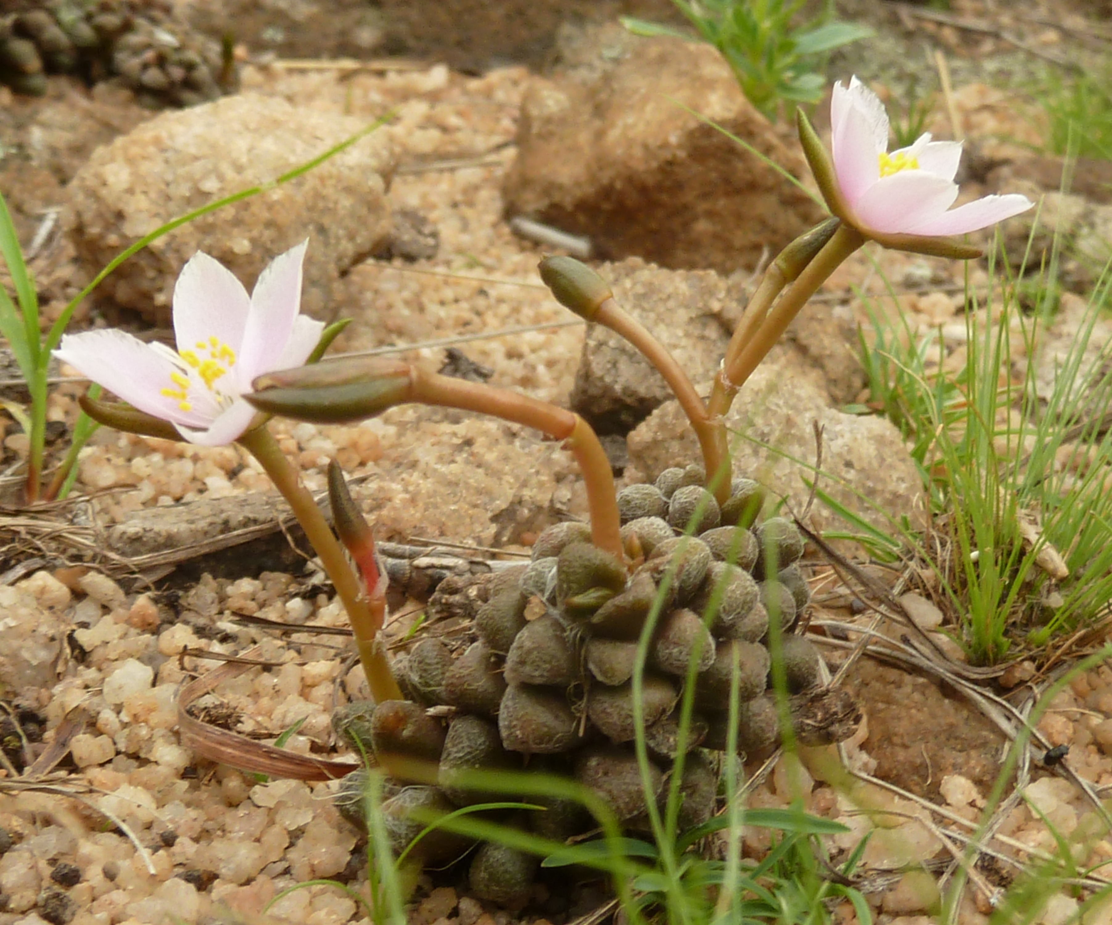 Habit of Anacampseros subnuda subsp. subnuda on the crest of the Magaliesberg near Skeerpoort, South Africa